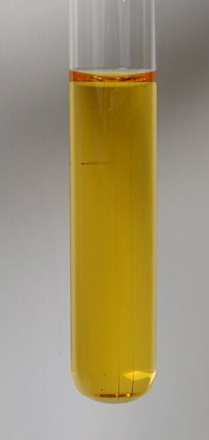 Potassium tetracyanonickelate(II) solution in a test tube